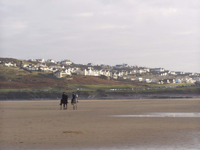 Ogmore by Sea. view from the north west